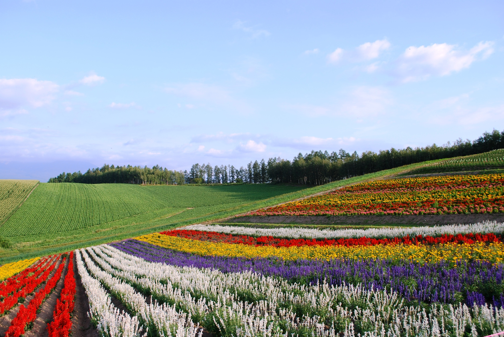 Hill of Shikisai